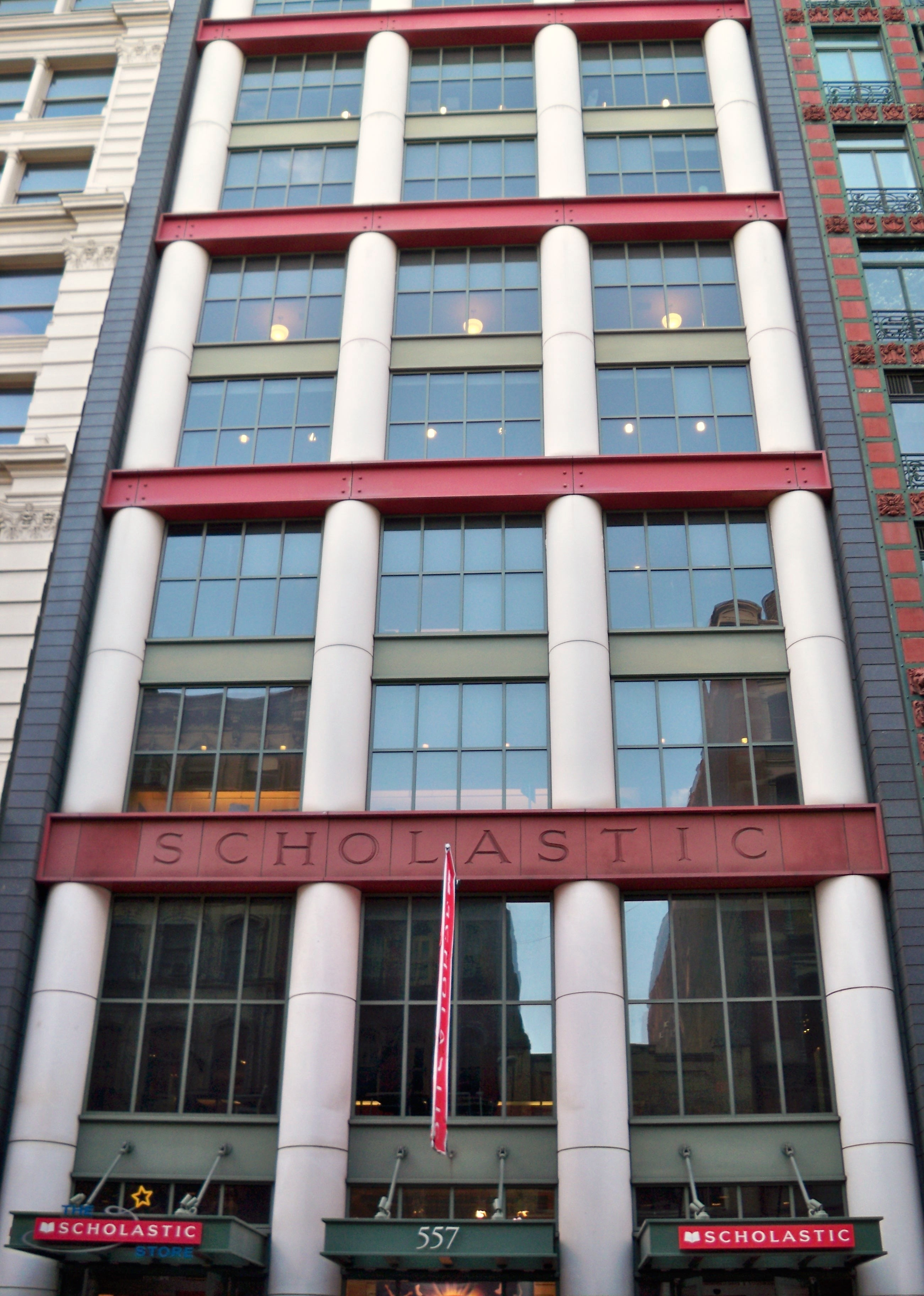 Scholastic Books Headquarters.